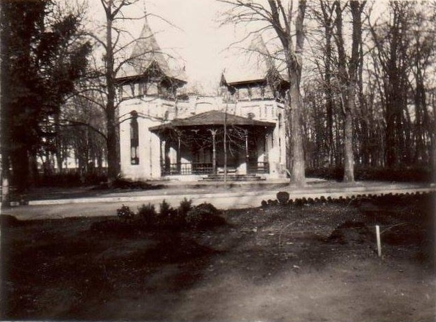 Copou Park Pavilion, Iași, România (archival image) (demolished in 1989 and replaced in the communist era by the modern building of the "Mihai Eminescu" Museum)